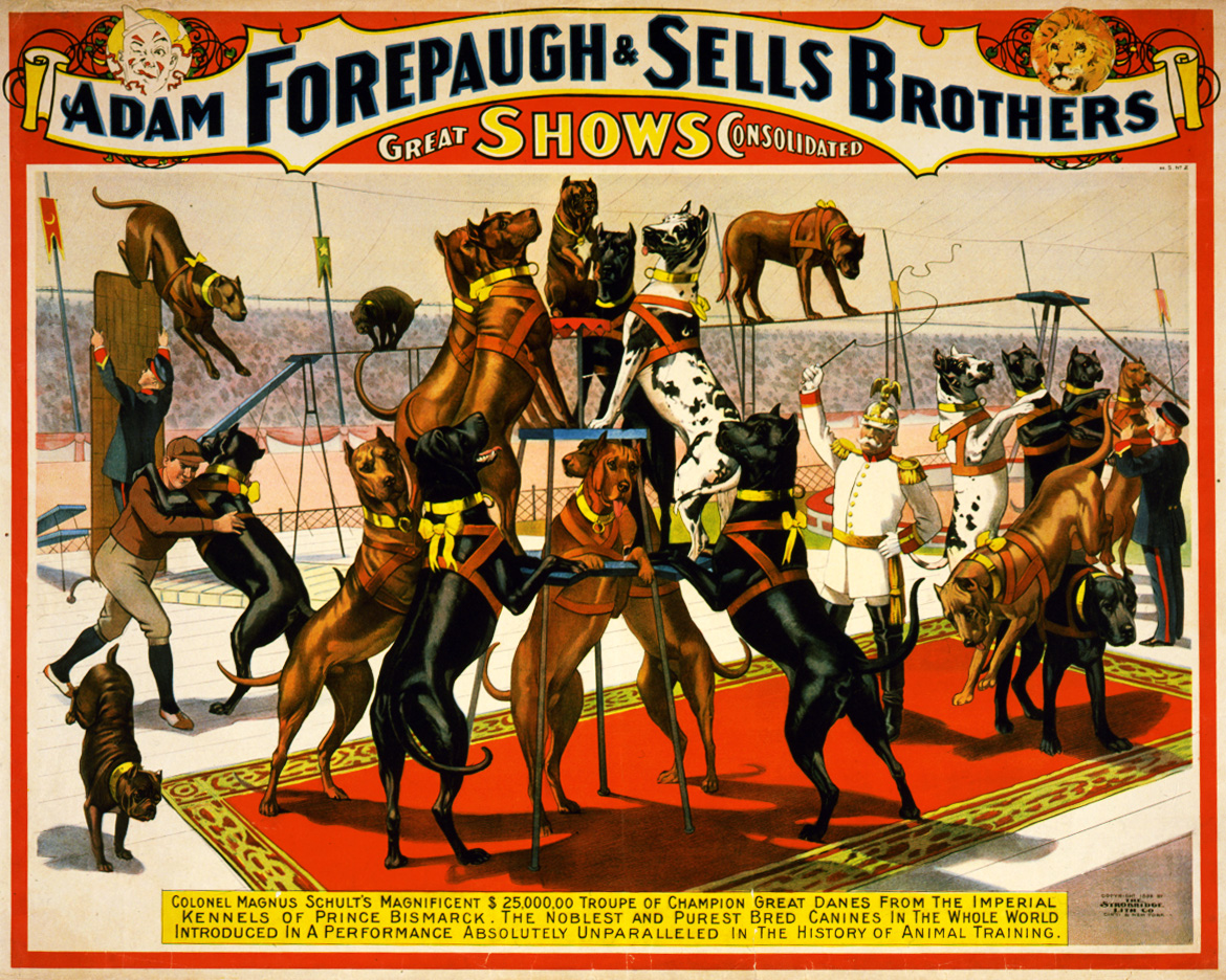 Promotional poster for Forepaugh & Sells Brothers circus. Text: "Adam Forepaugh & Sells Brothers great shows consolidated. Colonel Magnus Schult's magnificent $25,000.00 troupe of champion great danes from the Imperial kennels of Prince Bismarck. The noblest and purest bred canines in the whole world introduced in a performance absolutely unparalleled in the history of animal training."